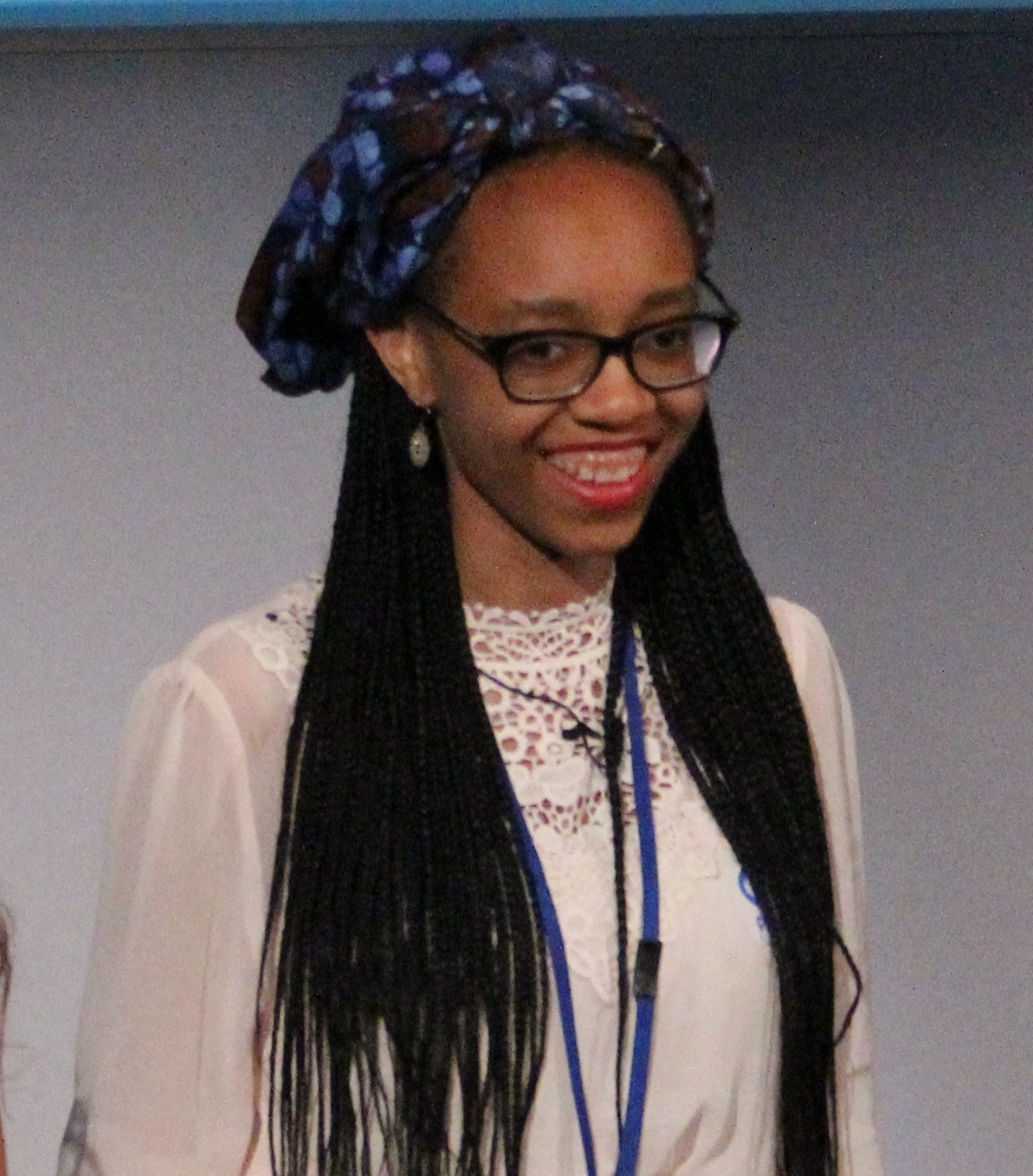 Picture: Russell Watkins/Department for International Development. Available free under the terms of Crown Copyright/Open Government License/Creative Commons - Attribution